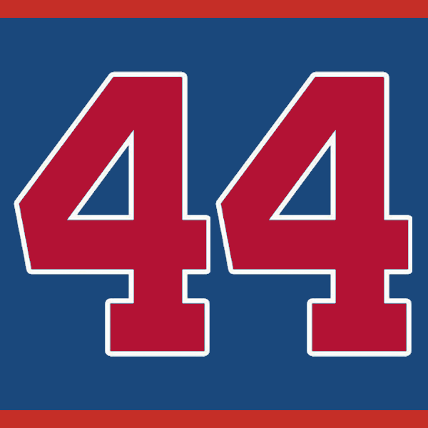 Illustration of Hank Aarons's Retired Braves Number